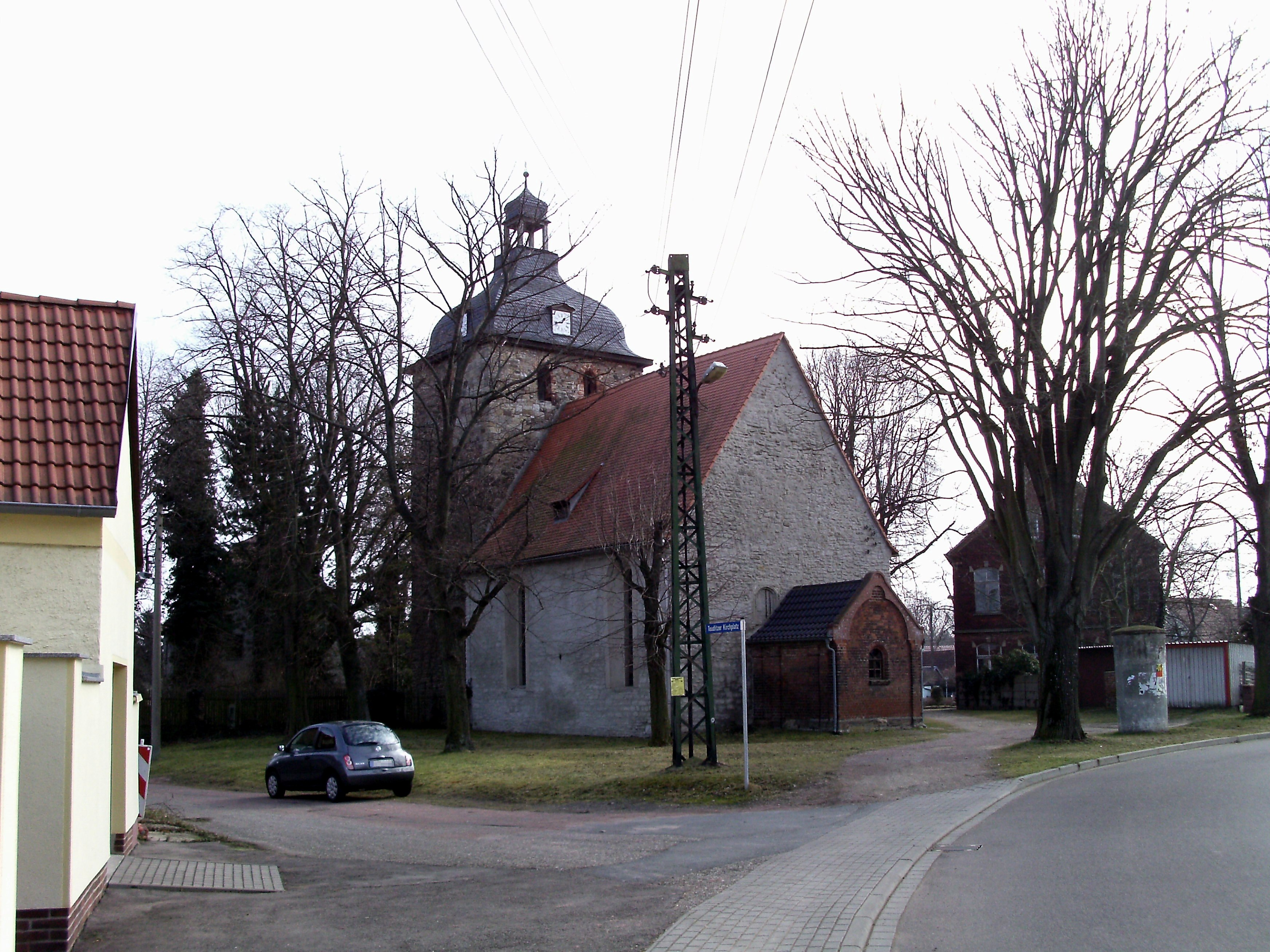 Teuditz church in Tollwitz (Bad Dürrenberg, district of Saalekreis, Saxony-Anhalt)